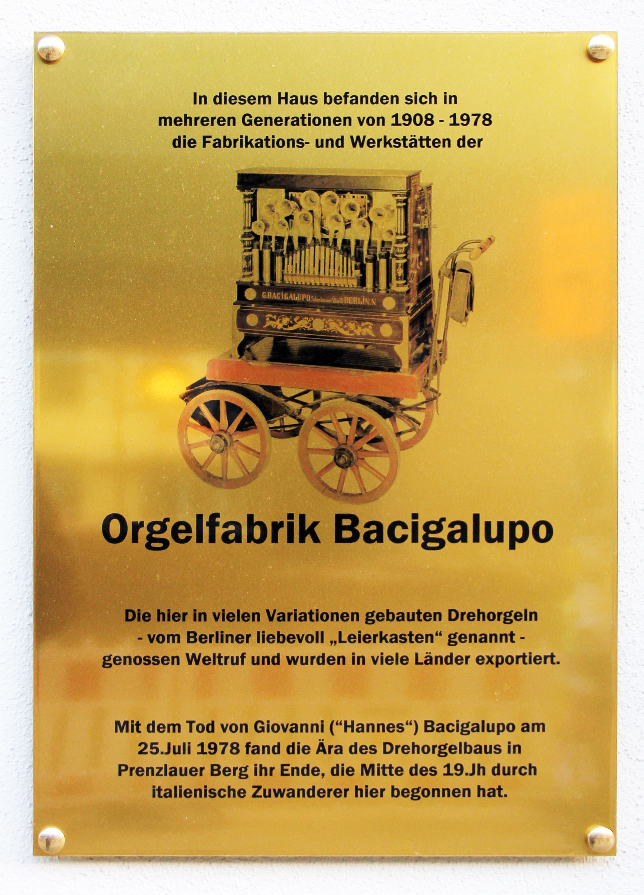 Memorial plaque, Giovanni Bacigalupo, Schönhauser Allee 74a, Berlin-Prenzlauer Berg, Germany